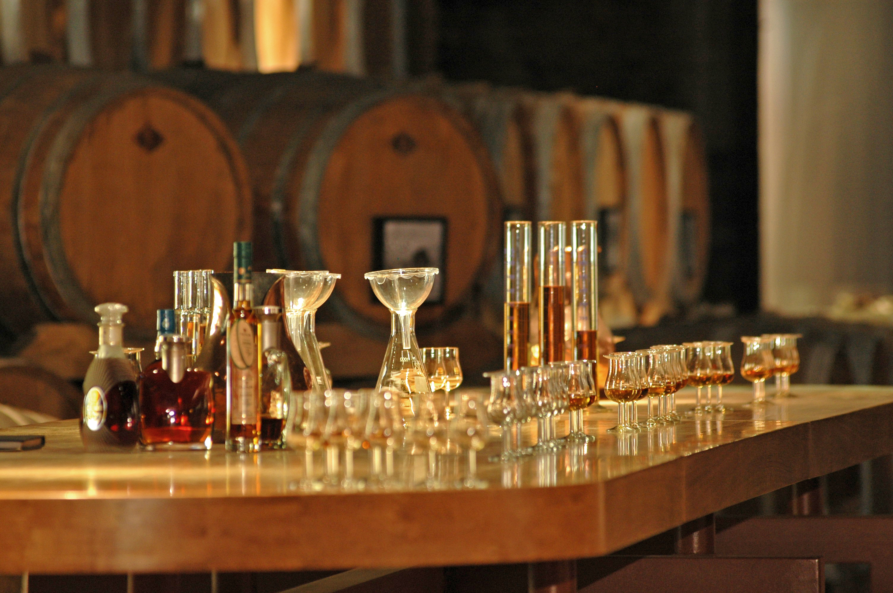 atelier Camus